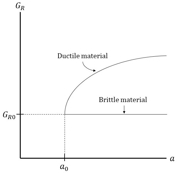 A plot of typical R-curves for both brittle and ductile materials